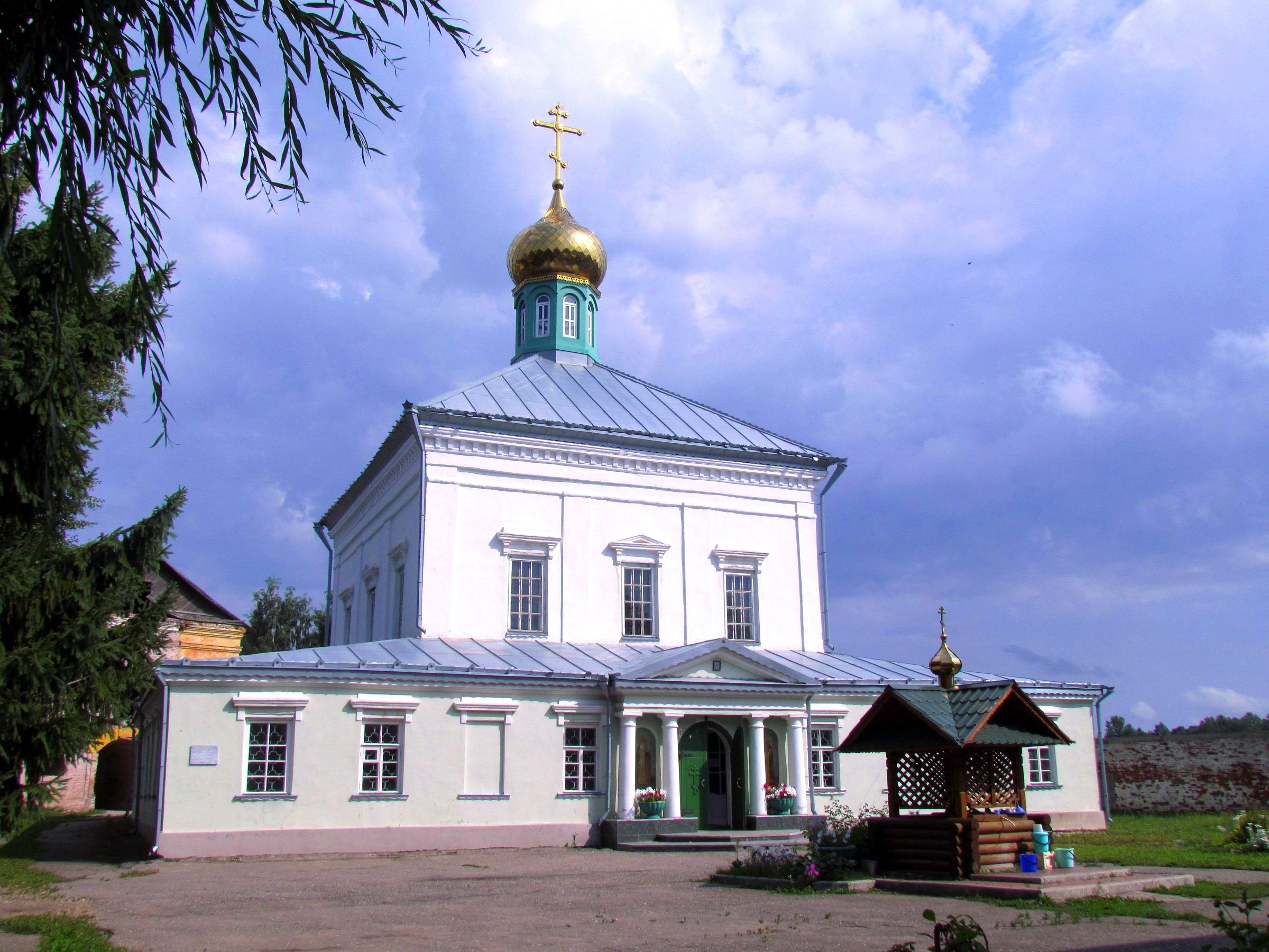 Church of the Descent of the Holy Spirit upon the Apostles (Borovichi, Novgorod Oblast).